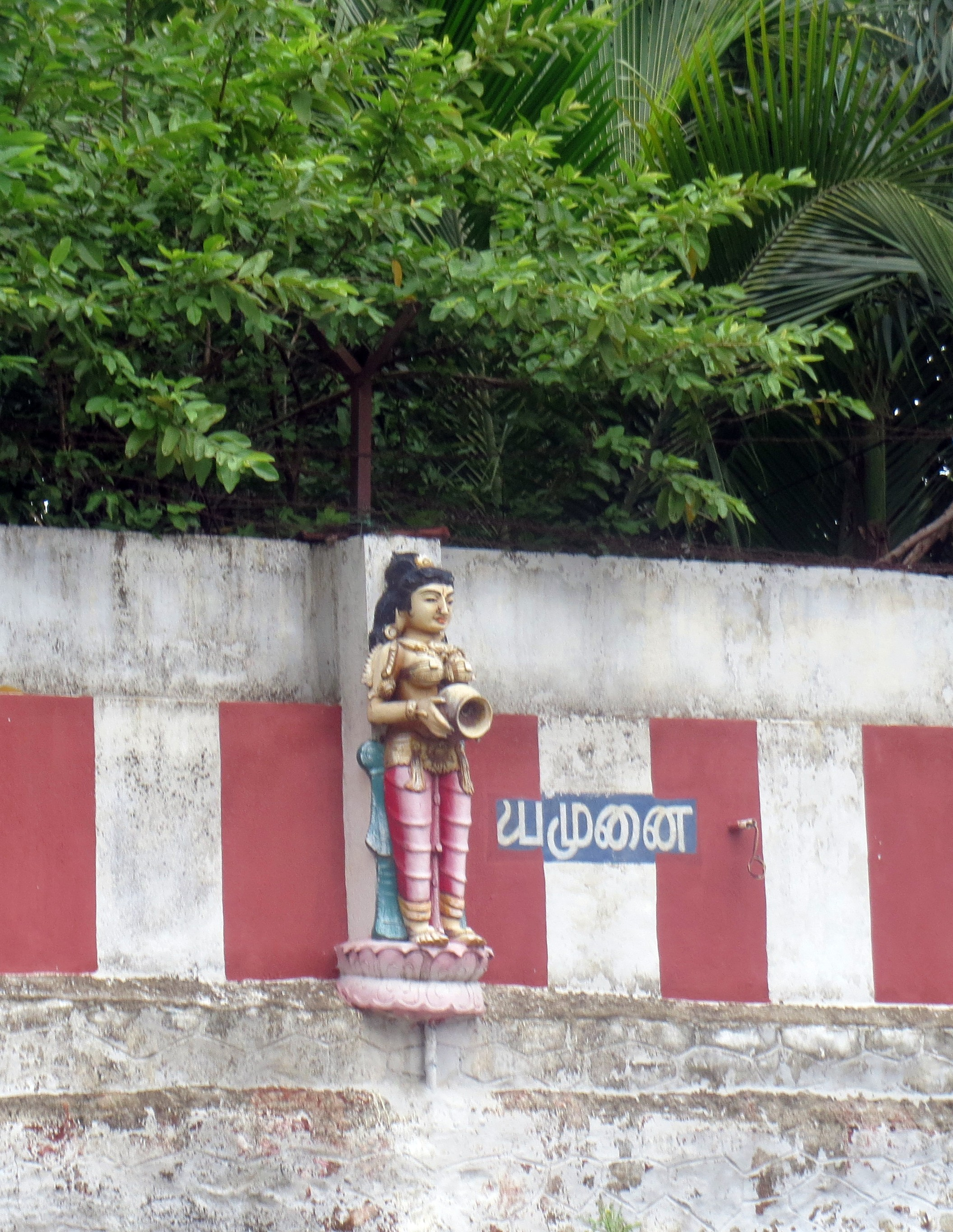 Statue of Yamuna nathi on the banks of Amirthakadeswarar Temple tank, Selaiyur in Chennai.